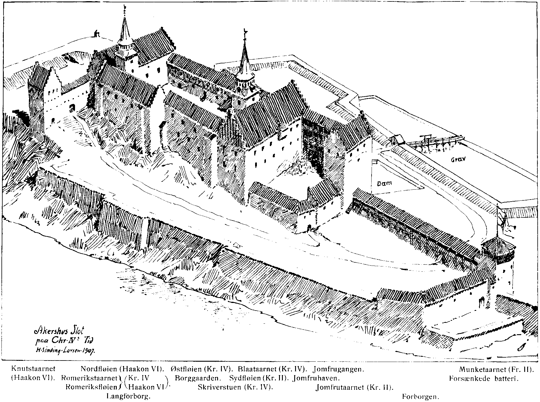 Akershus castle in the times of king Christian IV of Denmark-Norway. Reconstruction.